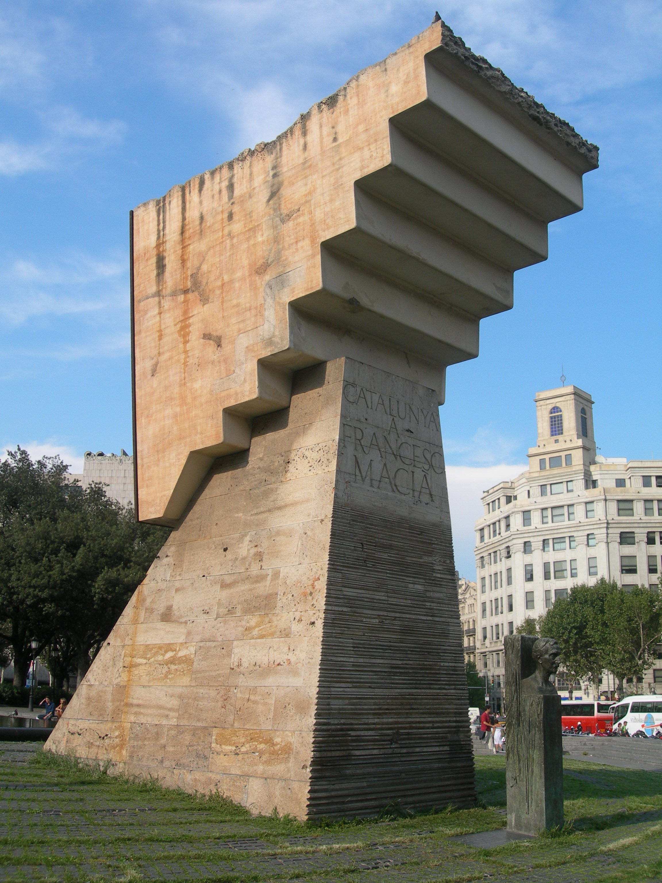 Photo of Francesc Macià's monument located in Pl. Catalunya (Barcelona). Macià declared the independence of Catalonia the 14th April of 1914.